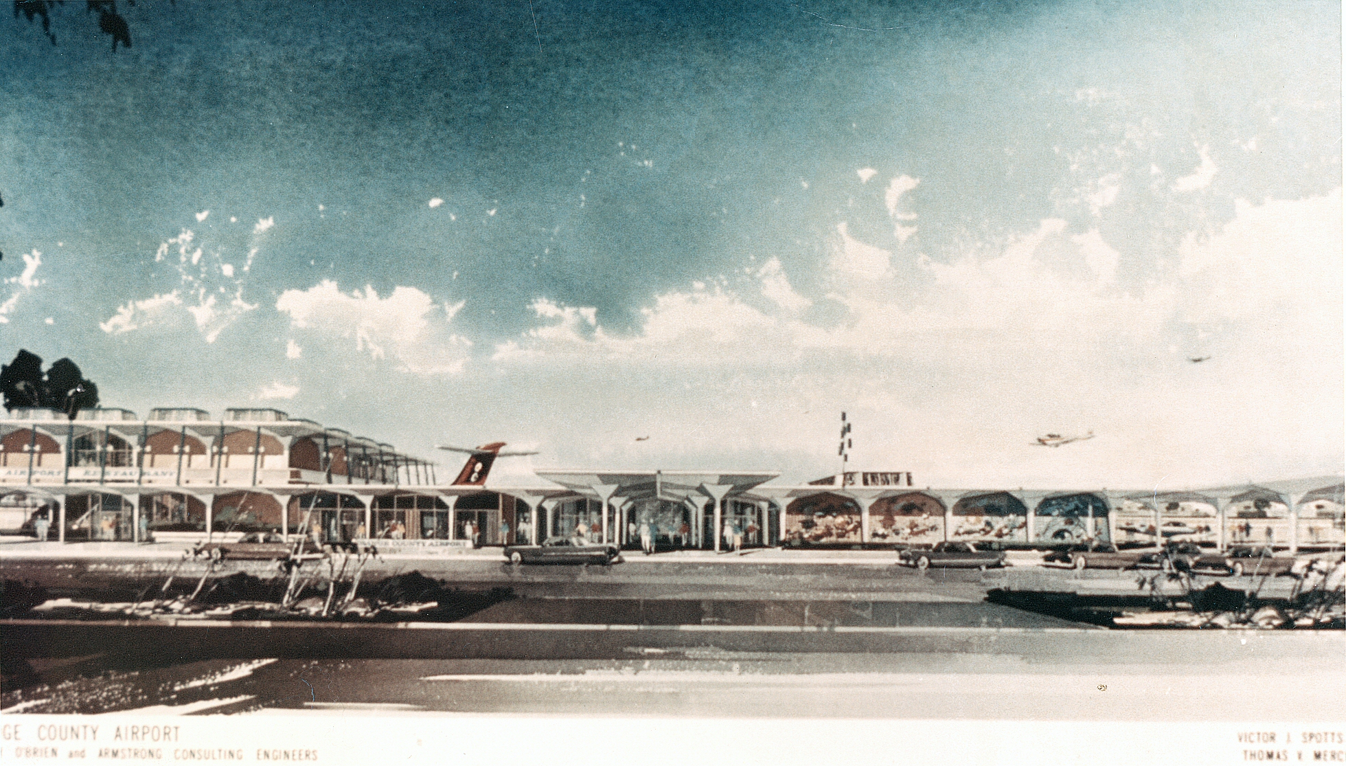 There are no known copyright restrictions on this image. All future uses of this photo should include the courtesy line, "Photo courtesy Orange County Archives." Comments are welcome after reading our Comment Policy .